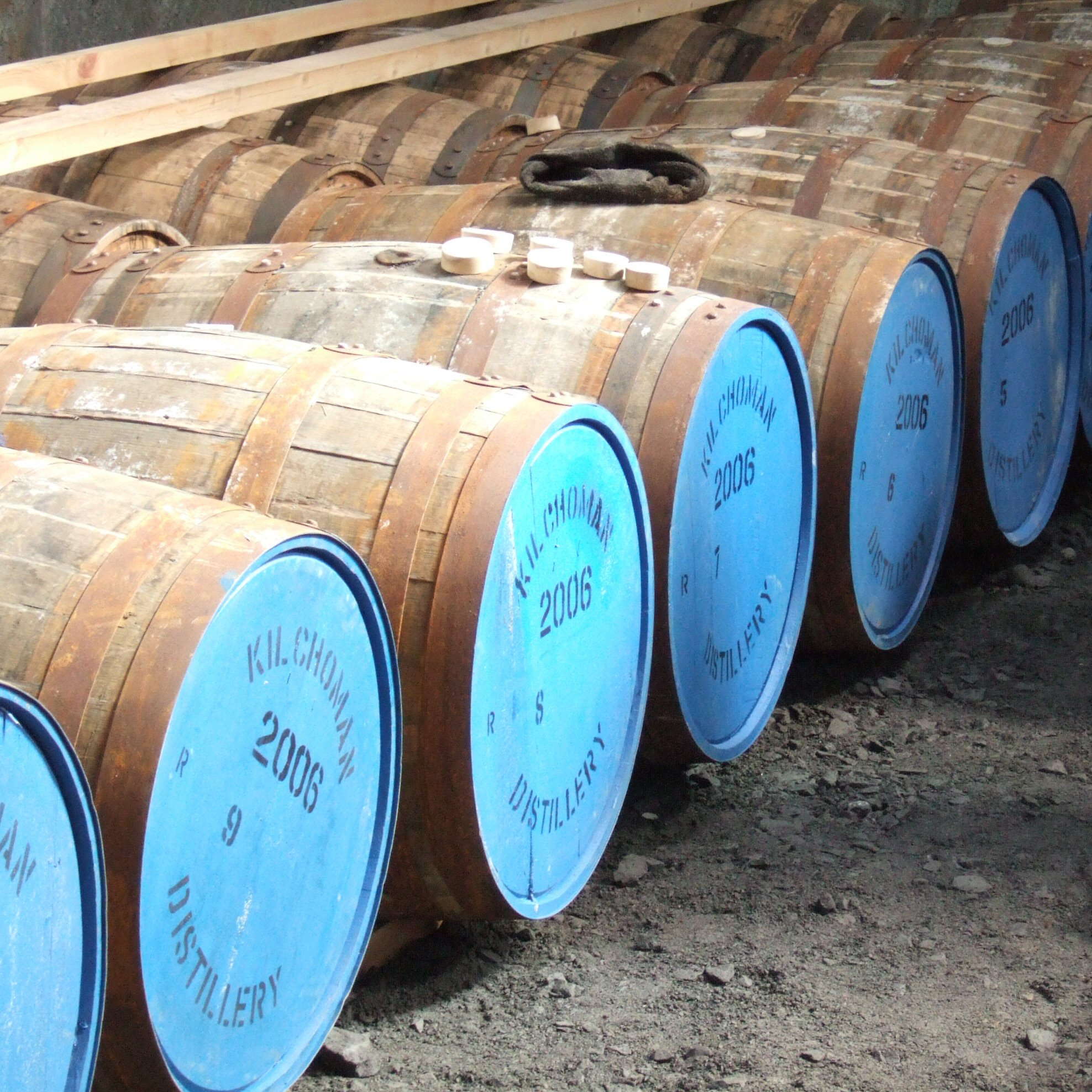 Kilchoman casks in the distillery warehouse.